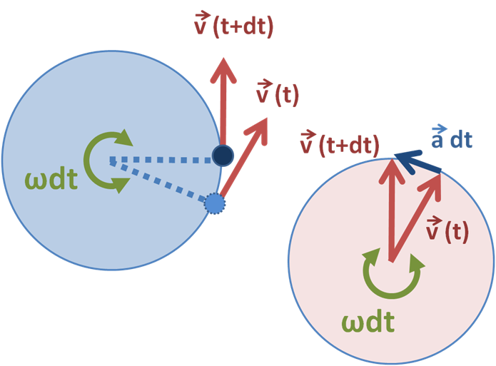 Velocity and acceleration in uniform circular motion